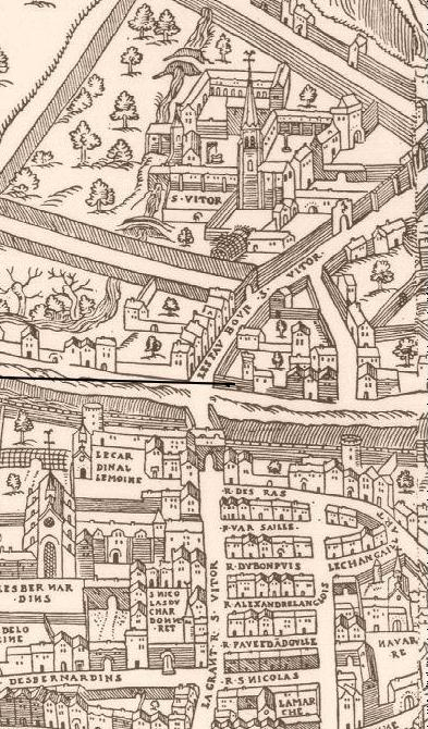 Extrait du plan de Paris, Plan de Truchet et Hoyau dit "plan de Bâle" (1552)